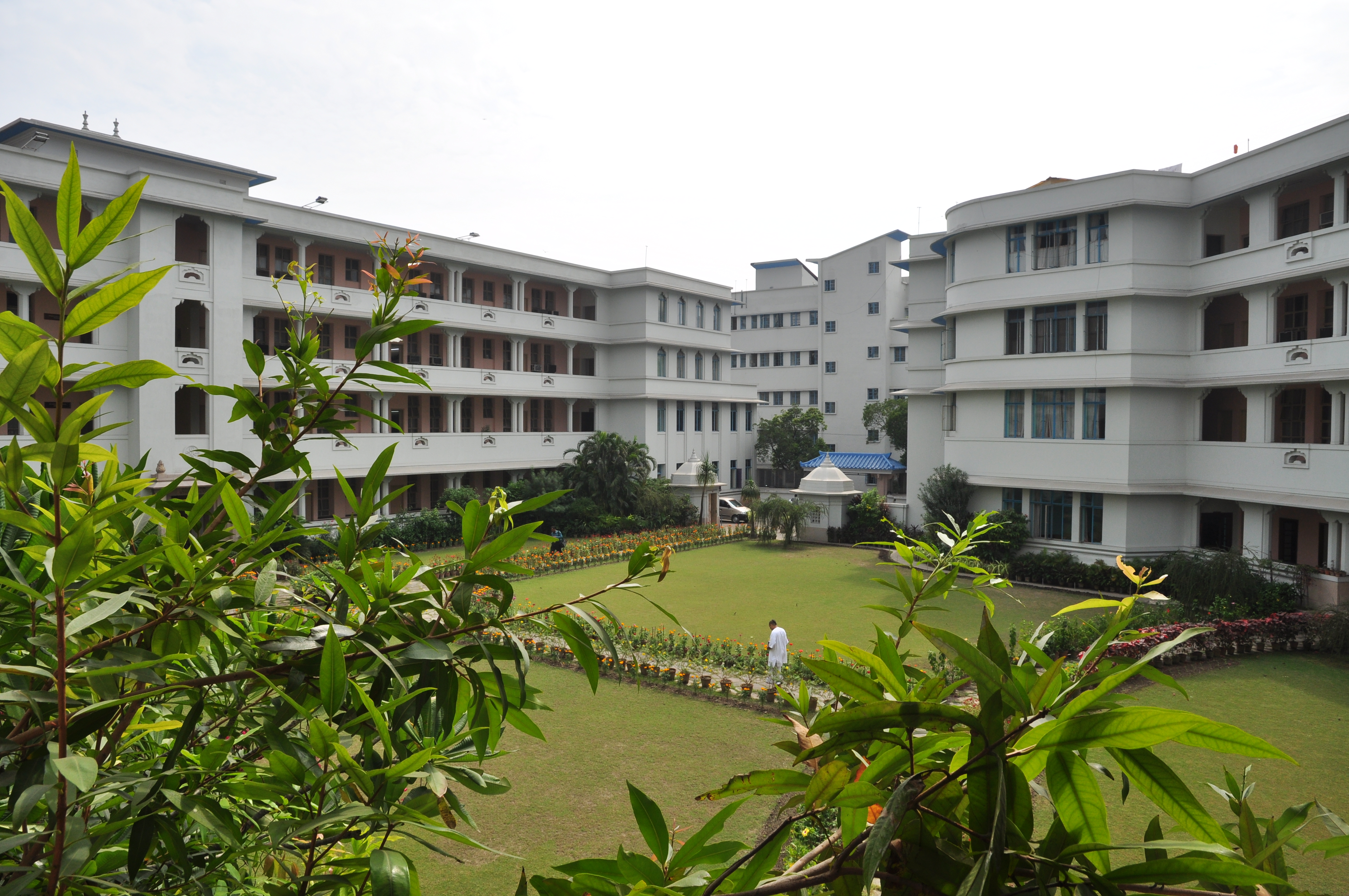 Inside view of he Ramakrishna Mission Institute of Culture at Gol Park, Kolkata, is a branch of Ramakrishna Mission, Belur Math (Headquarters). The Institute is well known for its philanthropic, educational and cultural activities all over the world.Based on the philosophy of the unity of human life, the Institute endeavours to make people aware of the richness of different cultures all over the world and also of the need for intercultural appreciation and understanding.